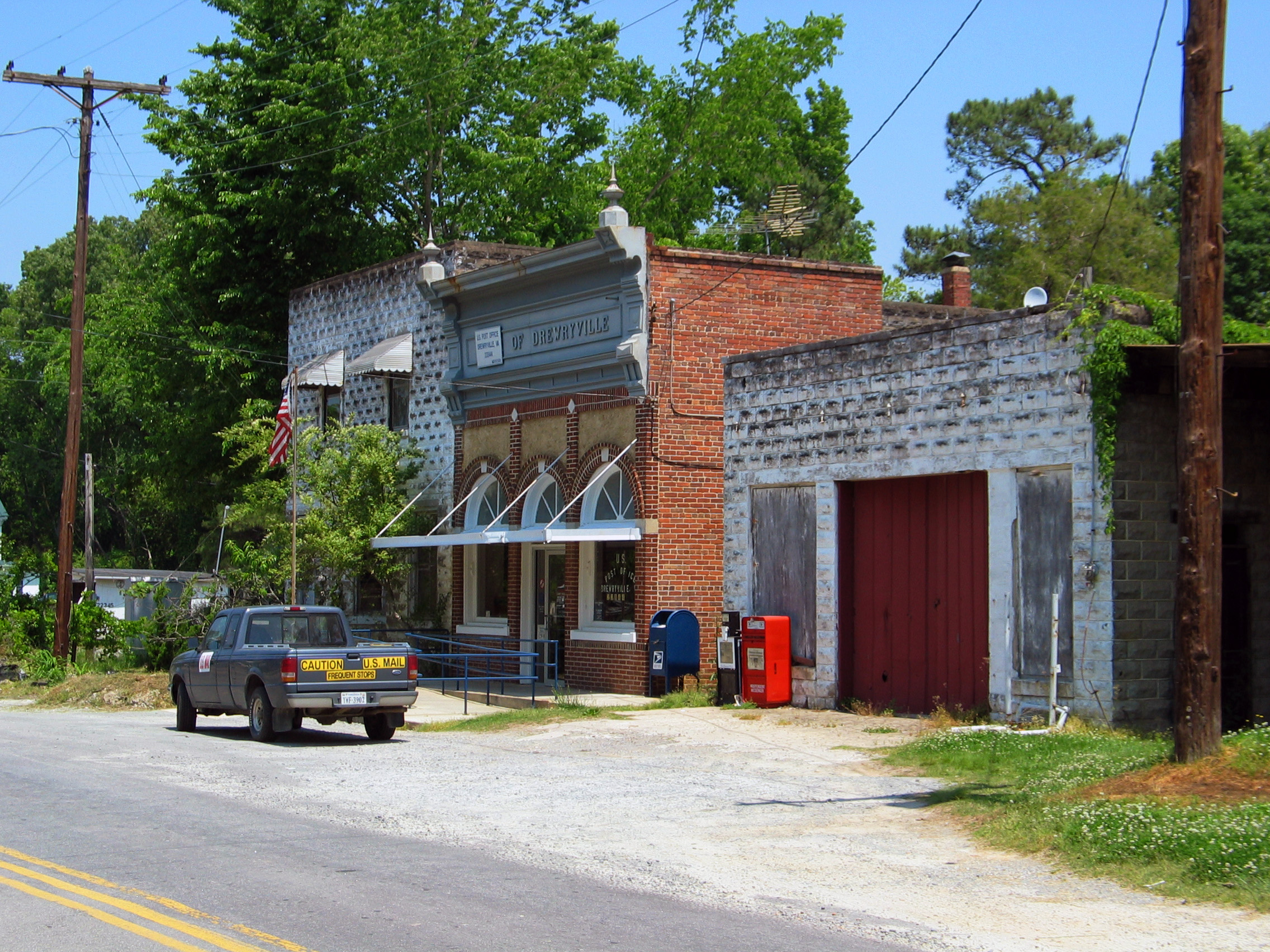 Drewryville VA